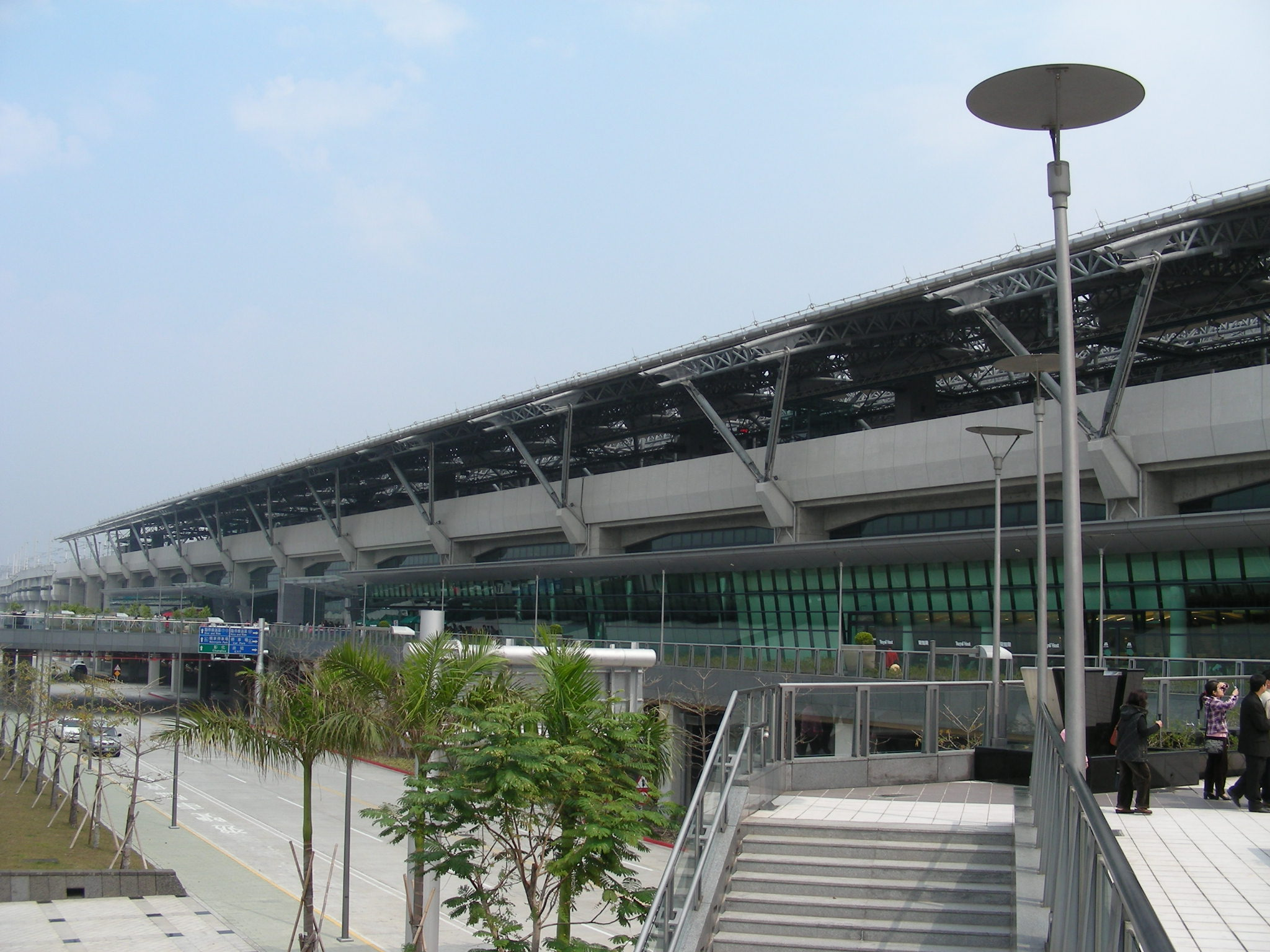 Taiwan HSR(High Speed Rail) Taichung Station Back (From right side)